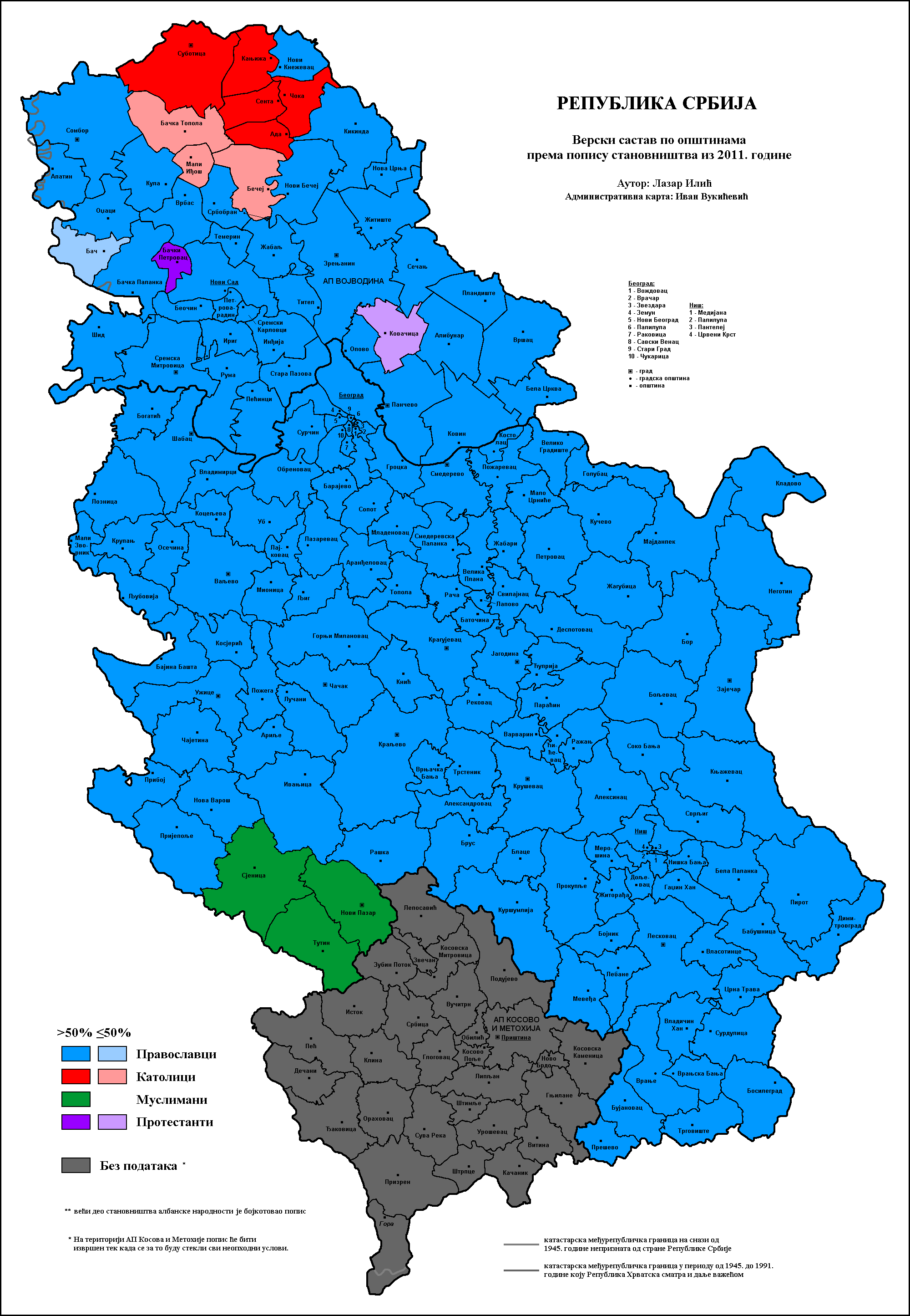 Religious map of serbia